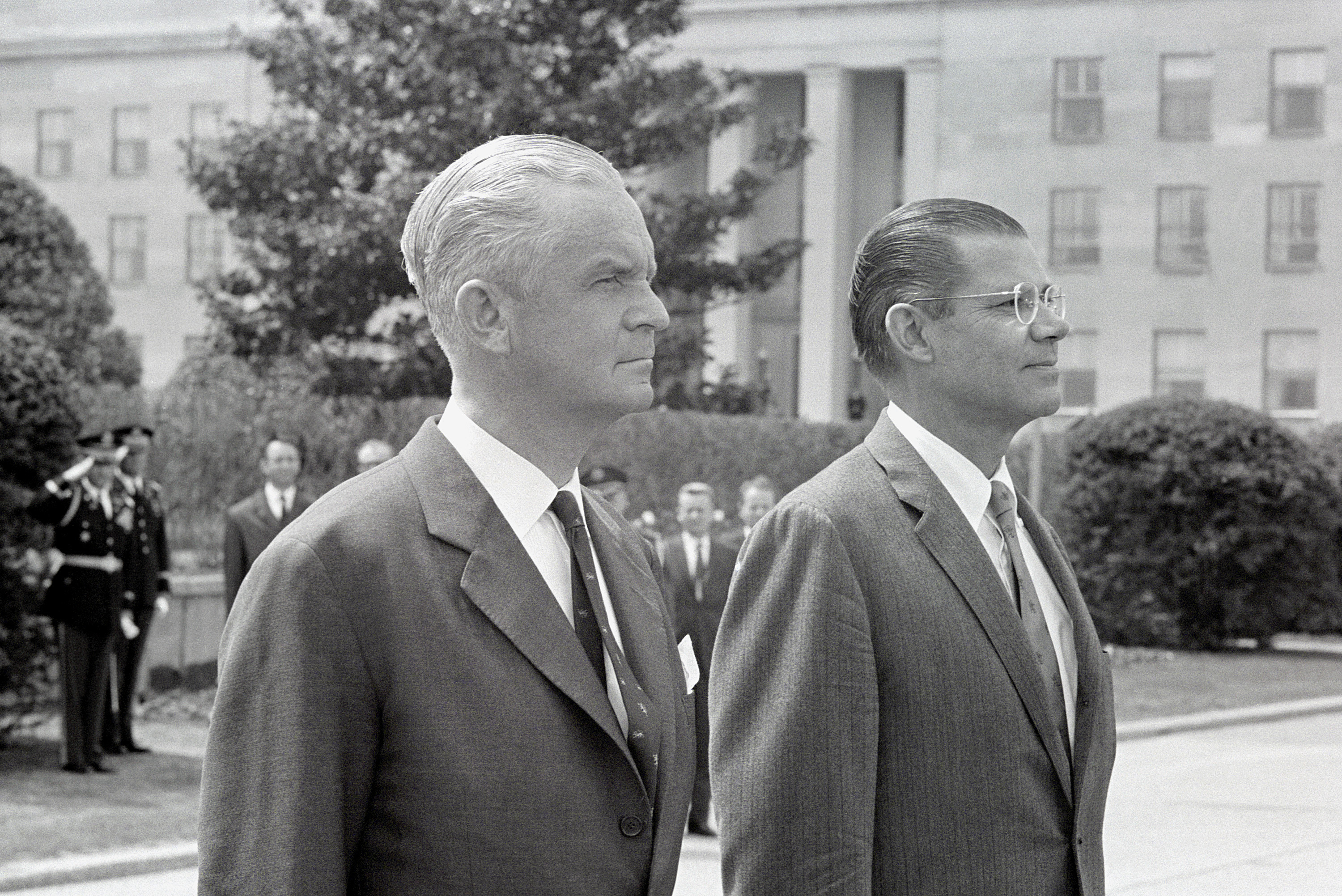 Original caption Secretary of Defense Robert S. McNamara, right, stands with Otto Grieg Tidemand, minister of defense for Norway, during a full honors arrival ceremony at the Pentagon. Location The Pentagon, Arlington, Virgina, USA